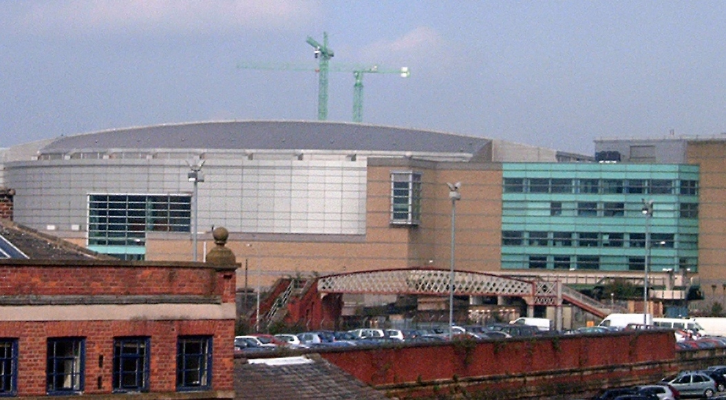 Manchester Evening News Arena